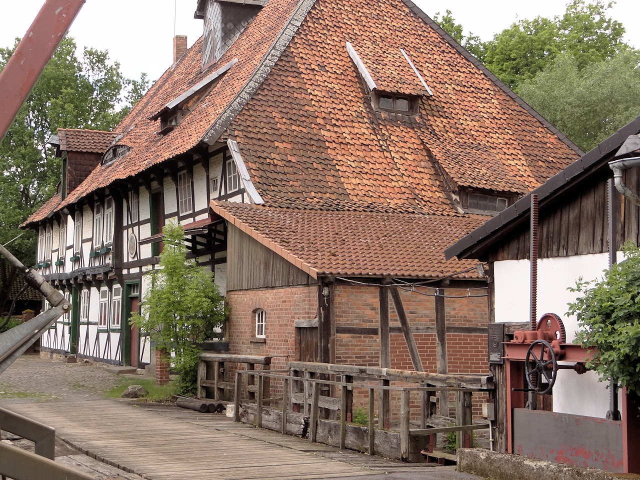 Mill Rothemühle near Groß Schwülper.